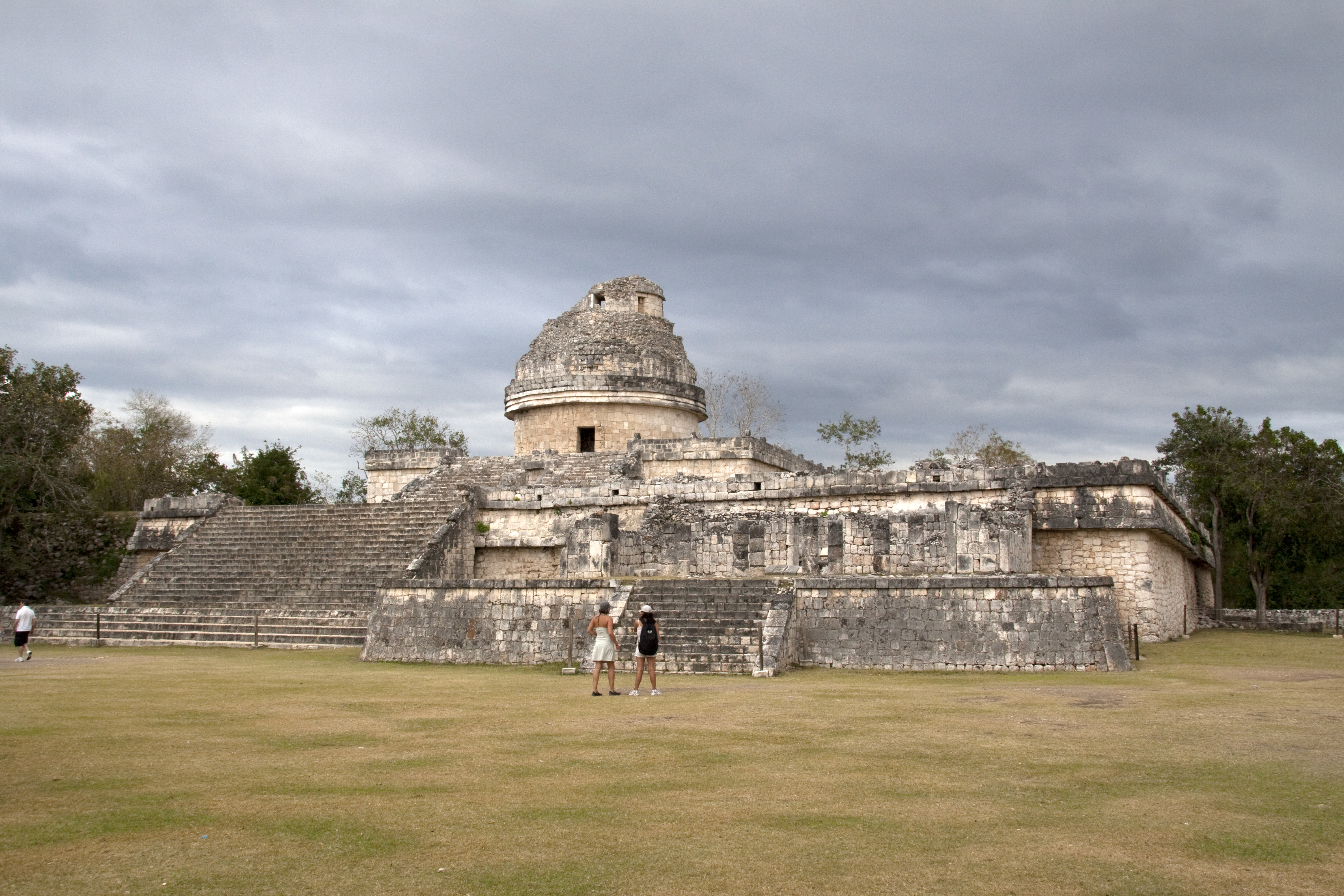 The Observatory 2